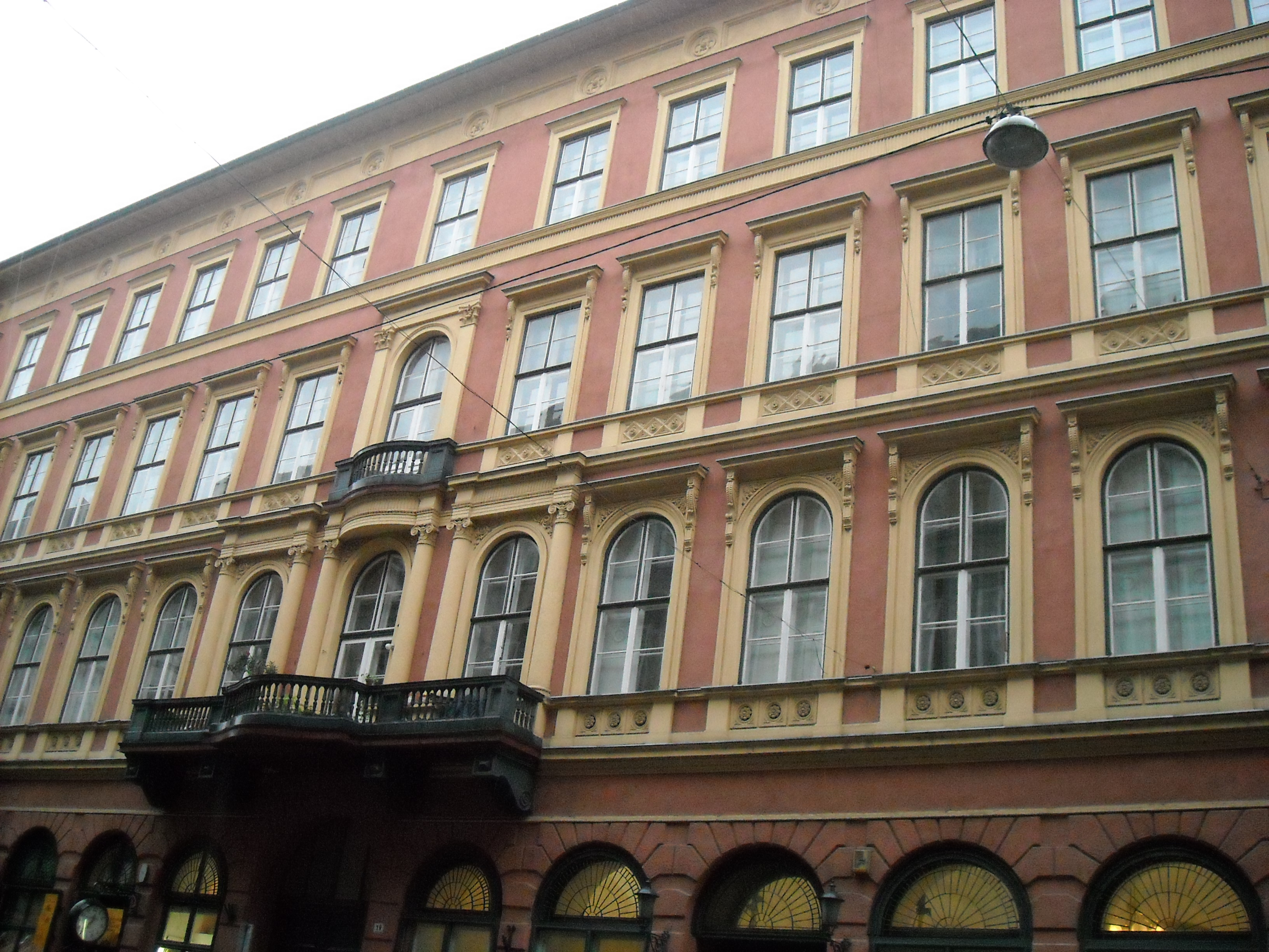 Nádor utca 19, Budapest